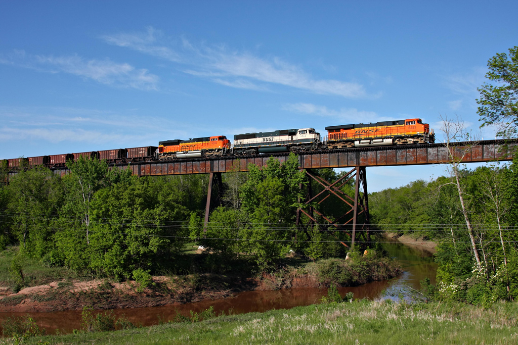 BNSF uses a short section of the old Soo Line Superior-Dresser line to span the Nemadji and Black rivers south of Superior.